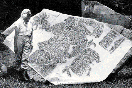 Merle with one of her rice rubbings from Stela 1 at Bonampak